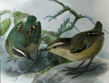 Rock-Wren male and female.